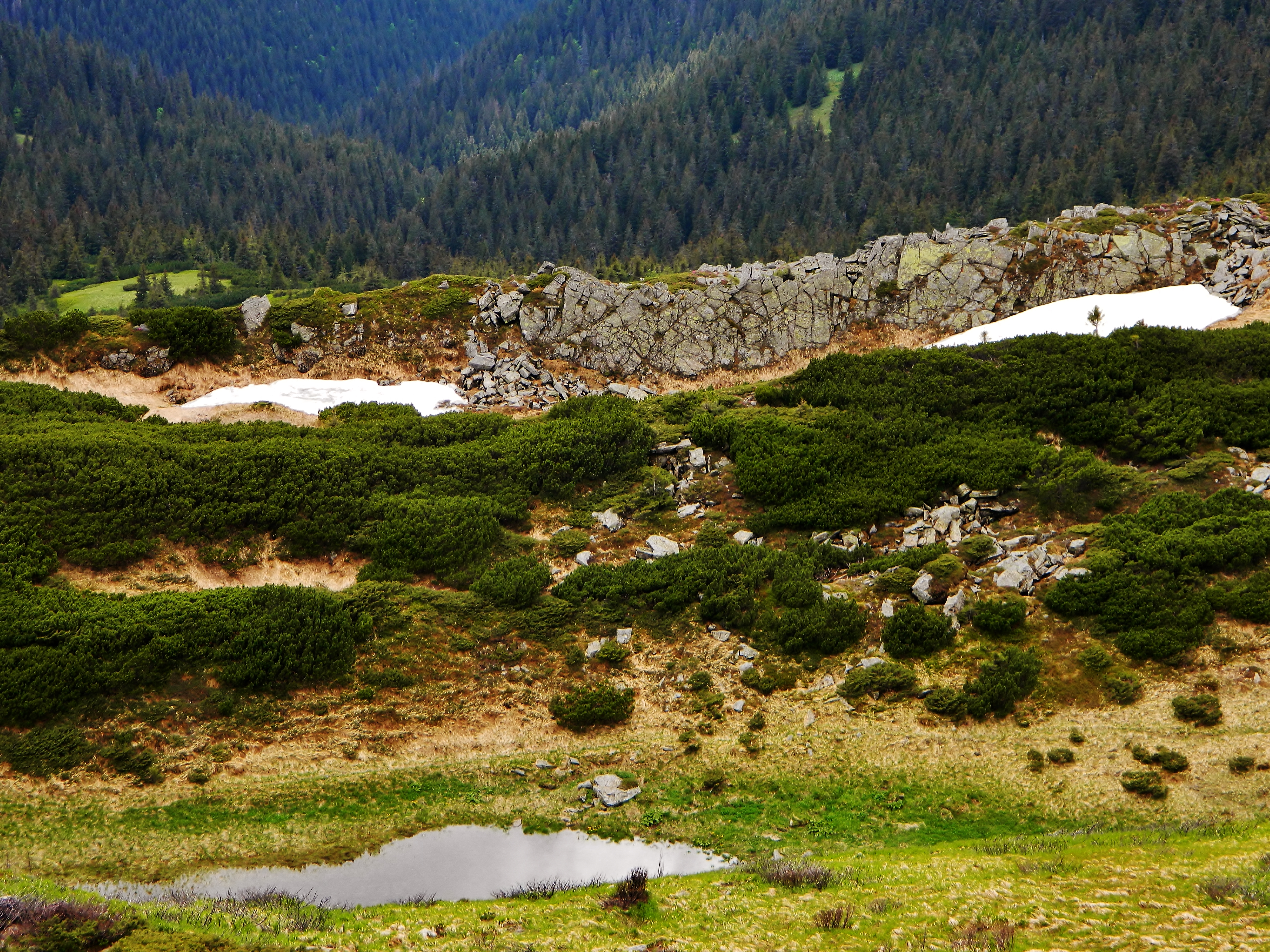 Pinus mugo on the moraine folds on the southern slope of the Chornohora range